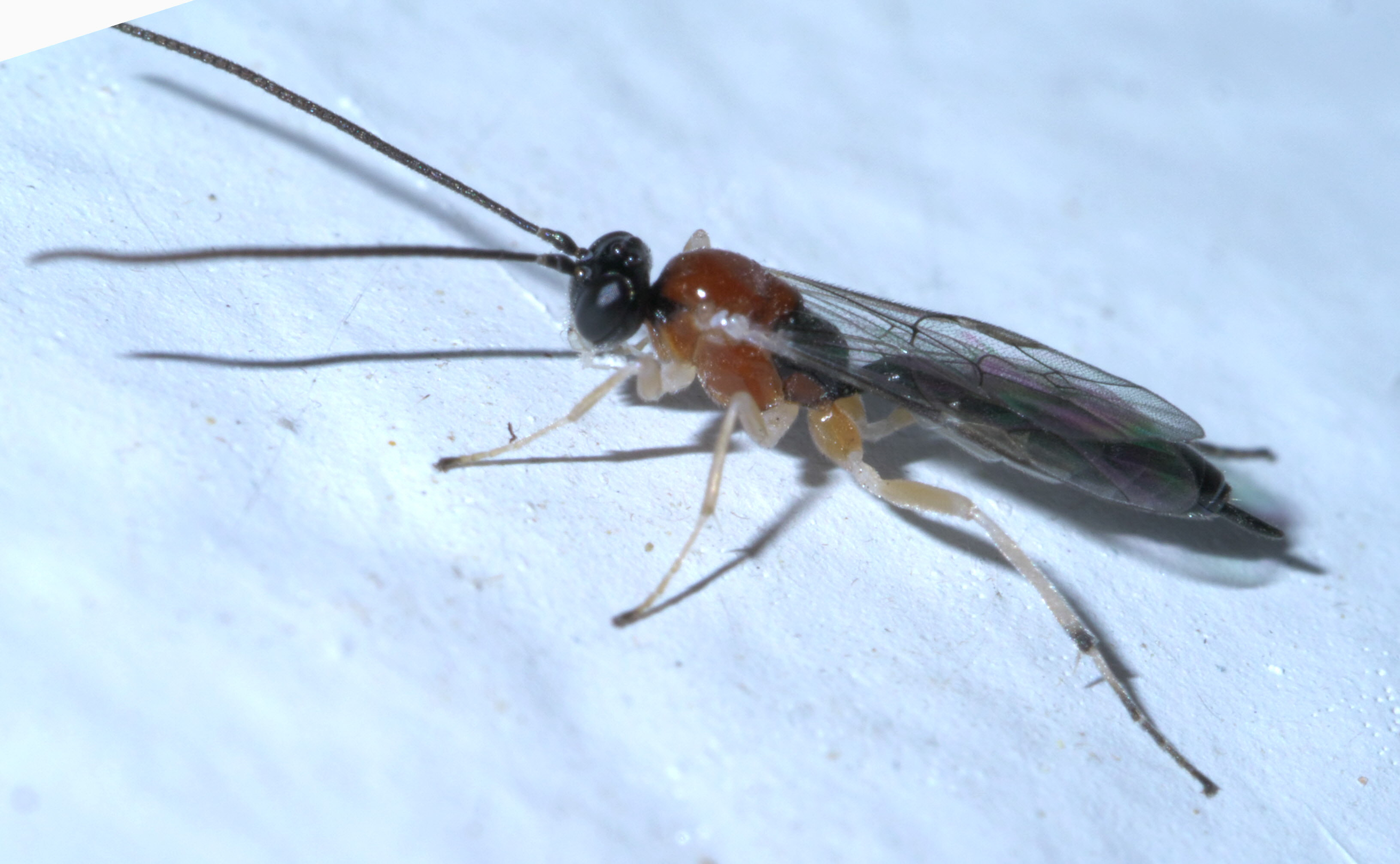 Mesochorinae, Family: Ichneumon Wasps, Size: 6 mm, ID Confidence: 98